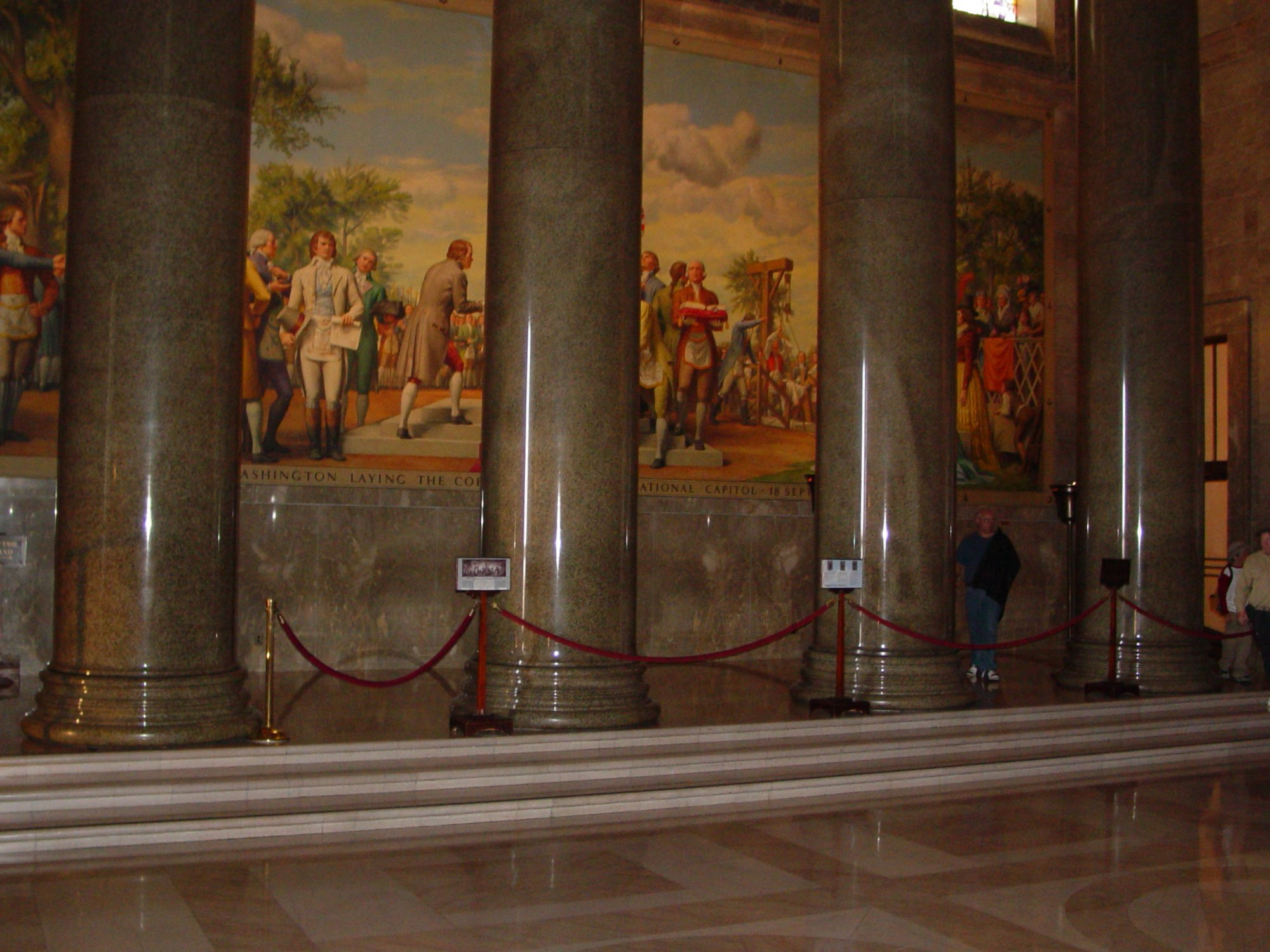 Columns in Memorial Hall in the George Washington Masonic National Memorial. Photo by Ben Schumin on March 8, 2003.